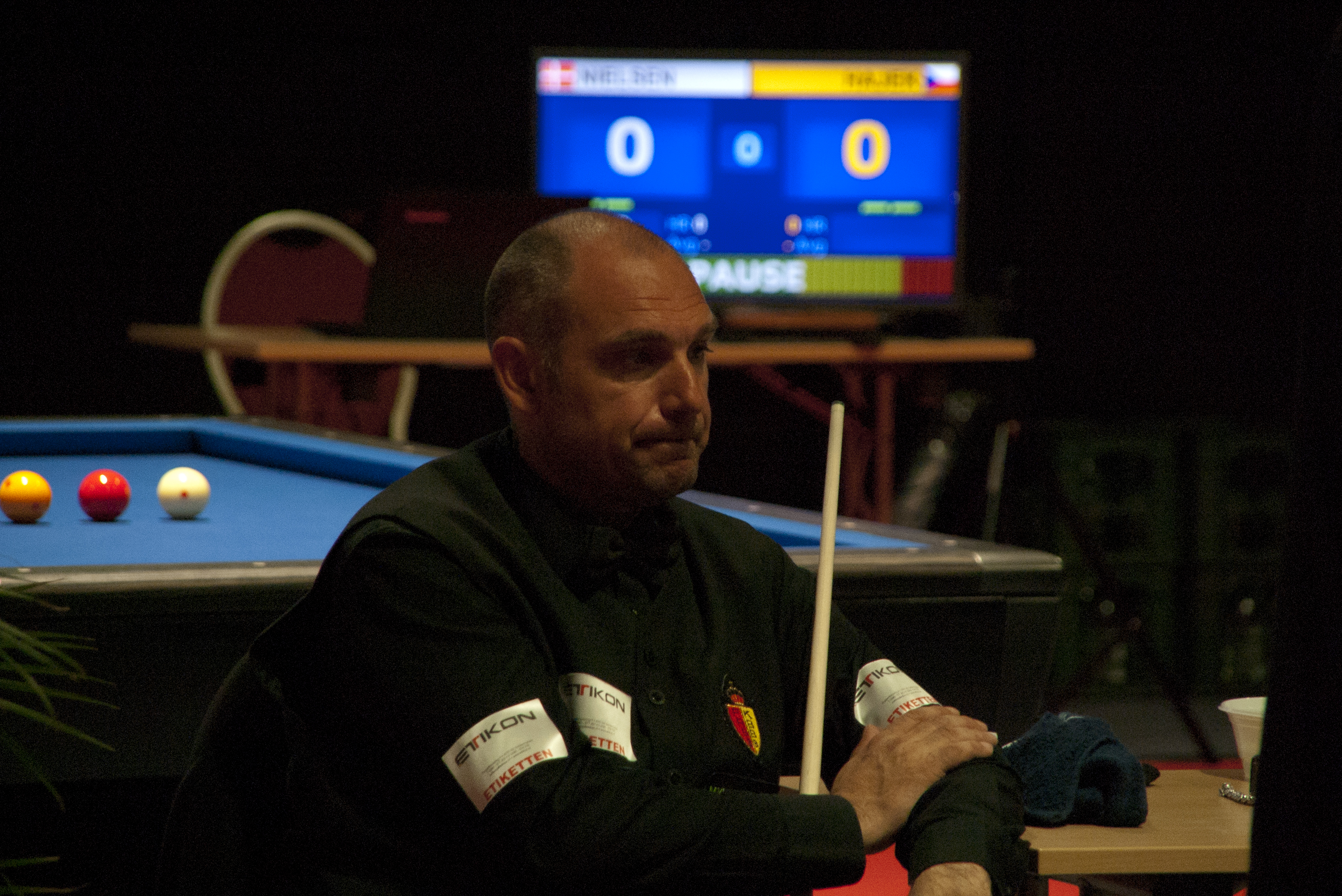 The making of this document was supported by the Community-Budget of Wikimedia Germany. European Carom Billiards Championships 2015